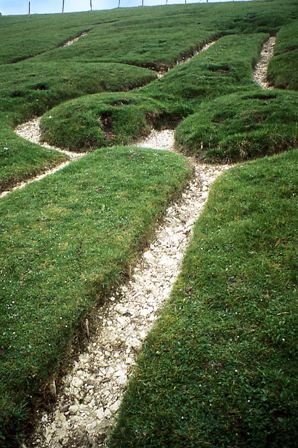 This is a scan from a 35mm transparency which I took in the mid 1970s at Cerne Abbas in Dorset, England. It shows a detail of the (extremely virile) chalk hill-figure called the Cerne Abbas Giant. He has long been believed to be prehistoric, but modern scholarship doubts this: the earliest written references to him are 18th century and he is now thought to have been cut as a skit or lampoon of a local politician, representing him as a naked Hercules. This scan is in the Public Domain (however, I retain ownership and copyright of the original transparency and any higher-resolution scans derived from it). If this image is used outside Wikipedia a photographer's credit (Simon Garbutt) would be much appreciated! SiGarb 17:29, 11 December 2005 (UTC)